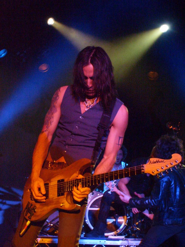 Nuno Bettencourt - Extreme, Live in Birmingham